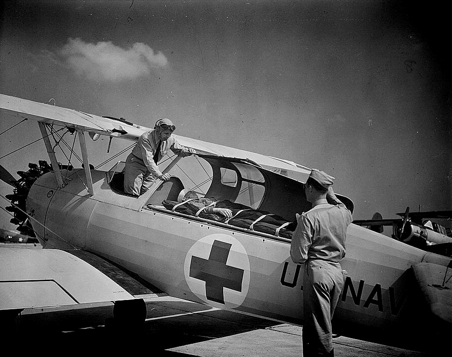 A U.S. Navy Boeing Stearman N2S Kaydet used at the Naval Air Station Corpus Christi, Texas (USA), as an ambulance for rescue work as a result of crashes in inaccessible regions of Texas adjacent to the training station, 1942.